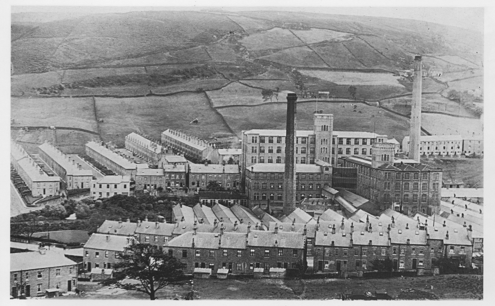 Bank Bottom Mill in Marsden, West Yorkshire, c1923